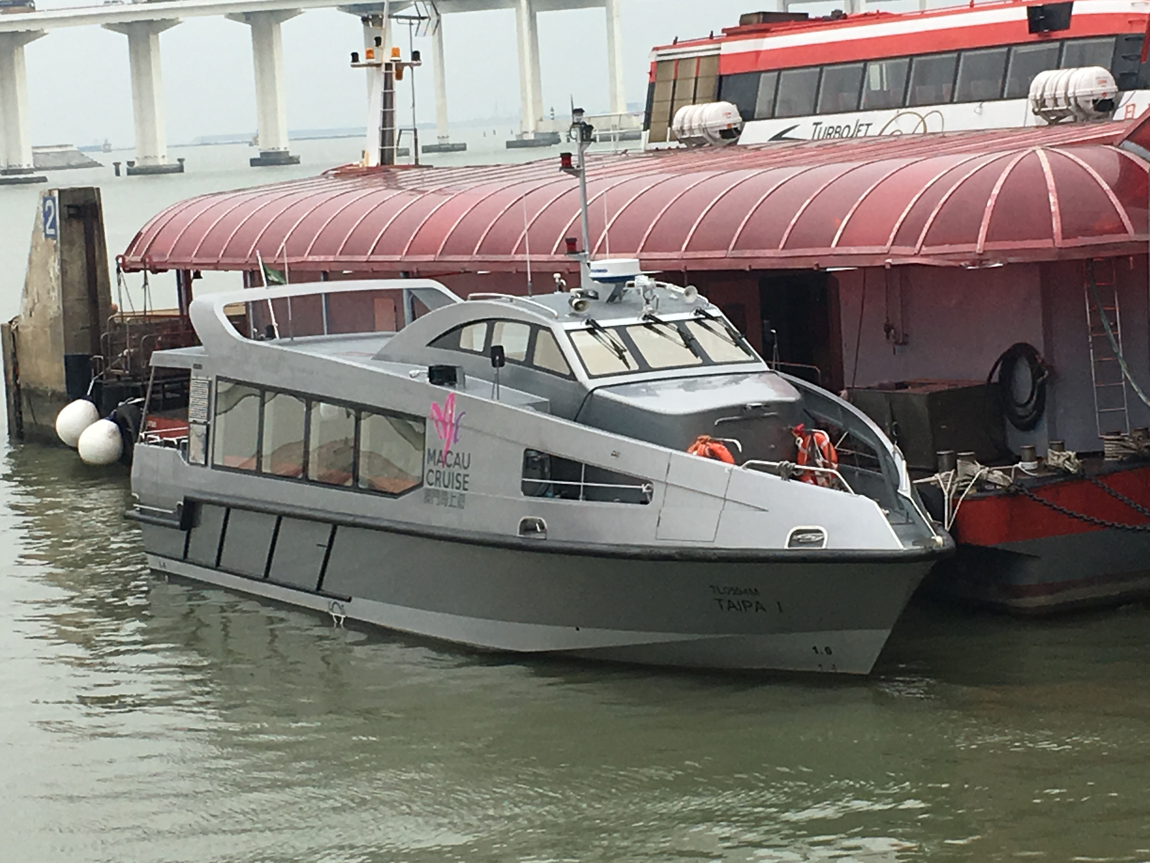 中文（香港）: This photo is taken in Outer Harbour.